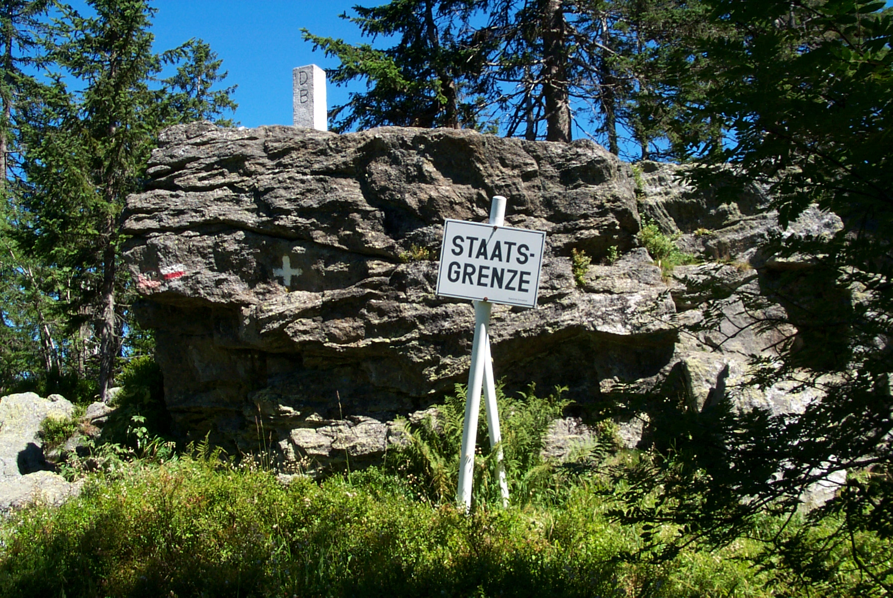 Zwercheck